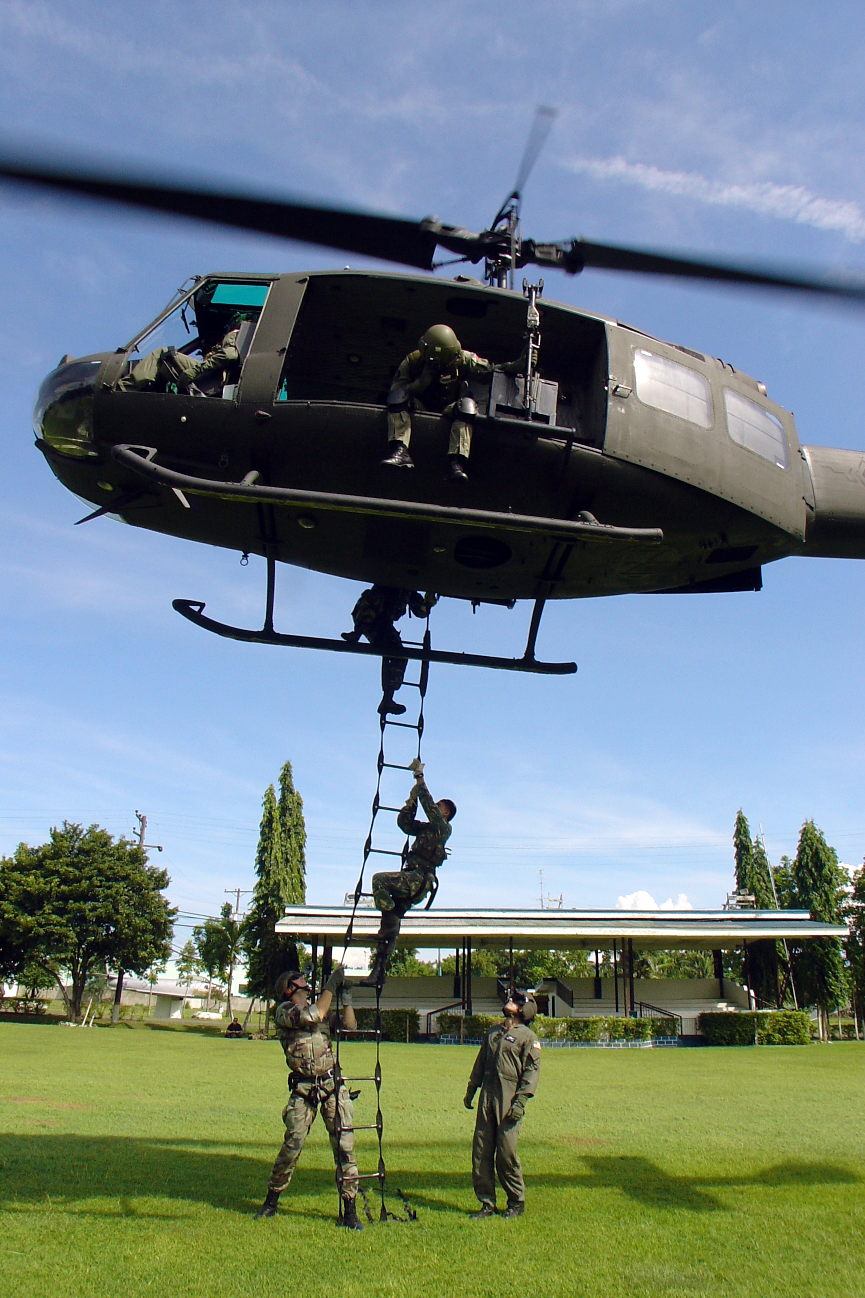 PHILIPPINES -- Airmen with the 6th Special Operations Squadron from Hurlburt Field, Fla., train Philippine airmen to use a rope ladder. (U.S. Air Force photo) The 14 Arimen of 6 SOS were part of the Joint Special Operation Task Force - Philippines.